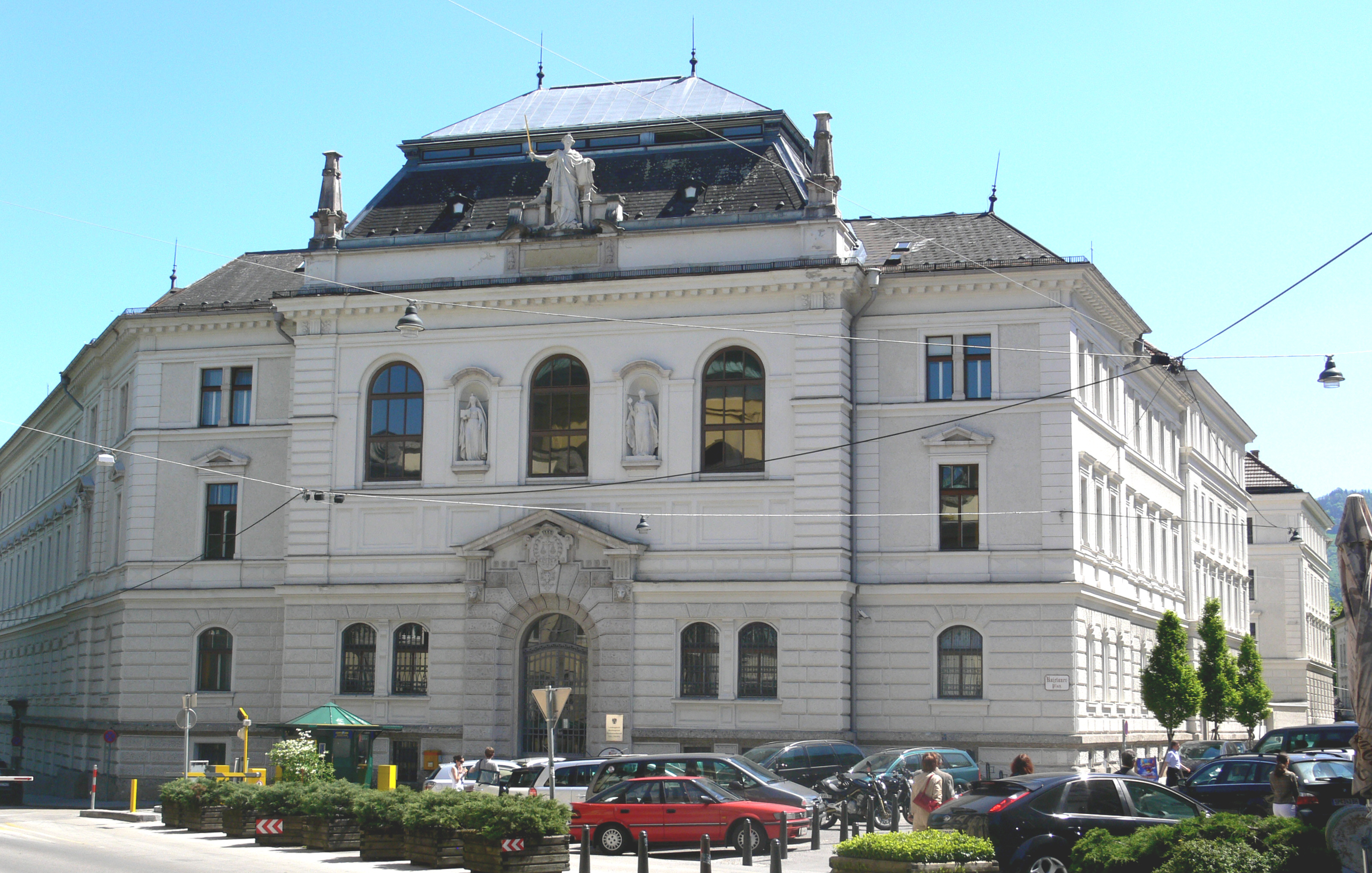 Salzburg, Salzburg State Court as seen from Kajetanerplatz (Cajetan Square)